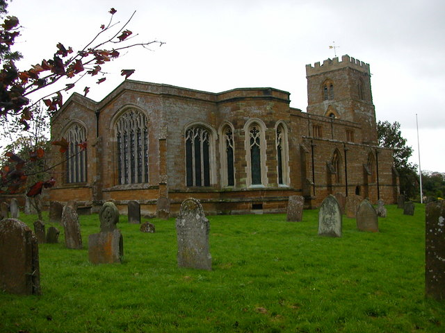 Great Brington Graveyard at the church of Saint Mary The Virgin.